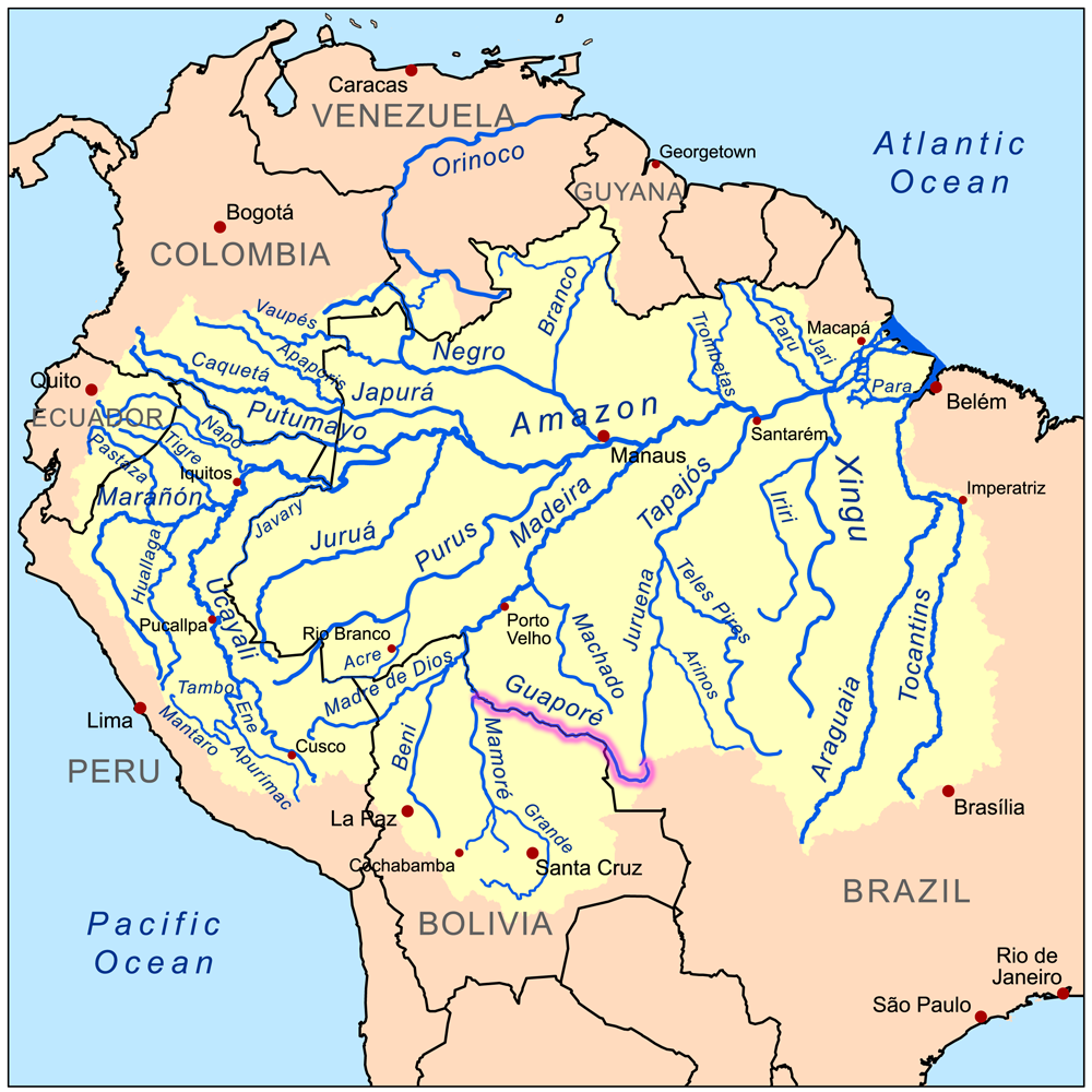 This is a map of the Amazon River drainage basin with the Guaporé River highlighted.